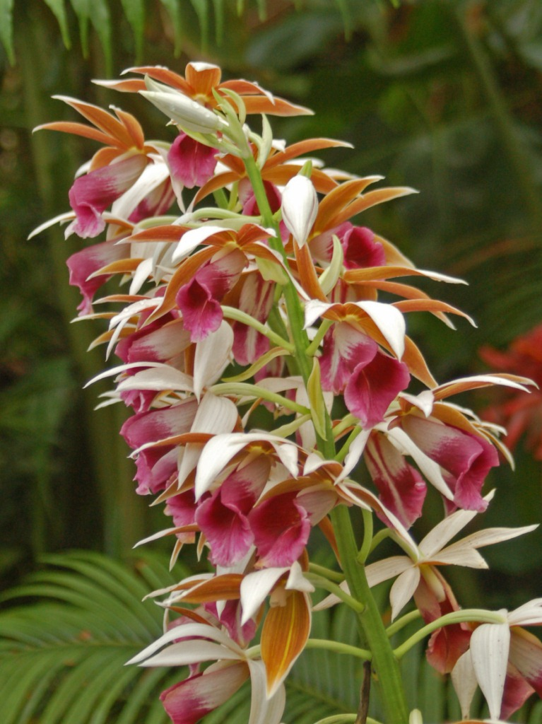 Phaius tancarvilleae - Botanika Zahrada Fata Morgana Praha